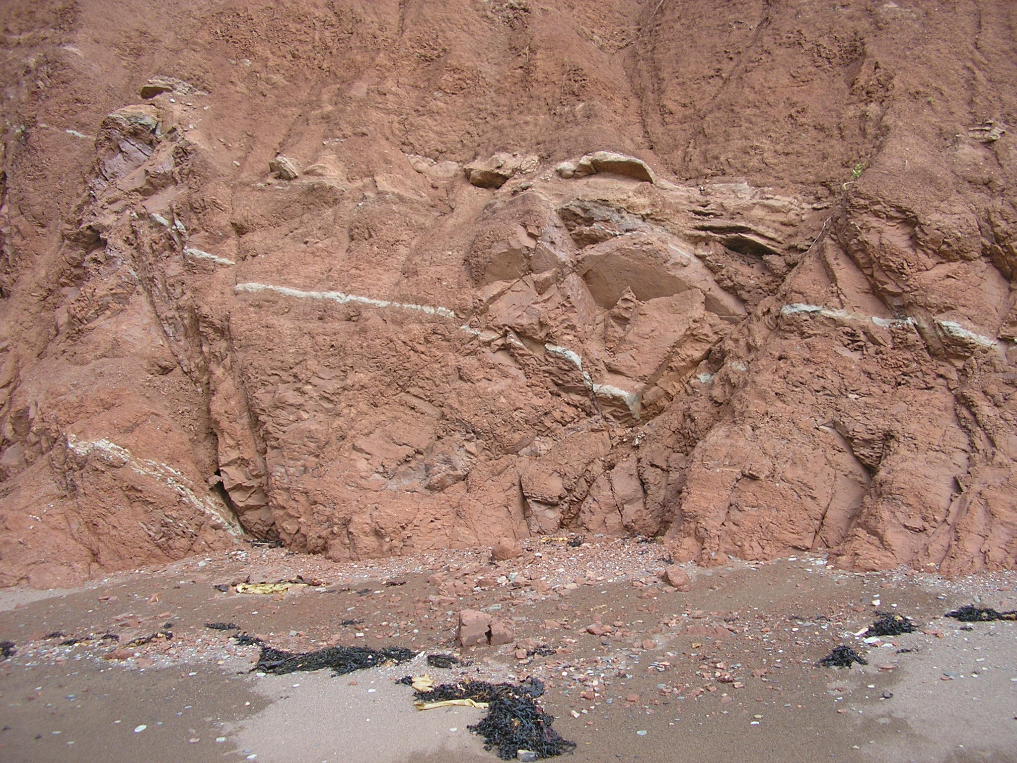 Minor normal faults with offsets shown by prominent white-weathering band. The largest fault dips to the left of the picture (west) while the smaller east-dipping structures are antithetic faults formed in its hanging wall, forming a small graben. Red mudstones with interbedded fine-grained sandstones, Triassic Blomidon Formation, Minas Basin North Shore, Nova Scotia.